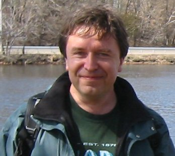 Hess, Wolfgang. Professor at the University of Freiburg (Germany)